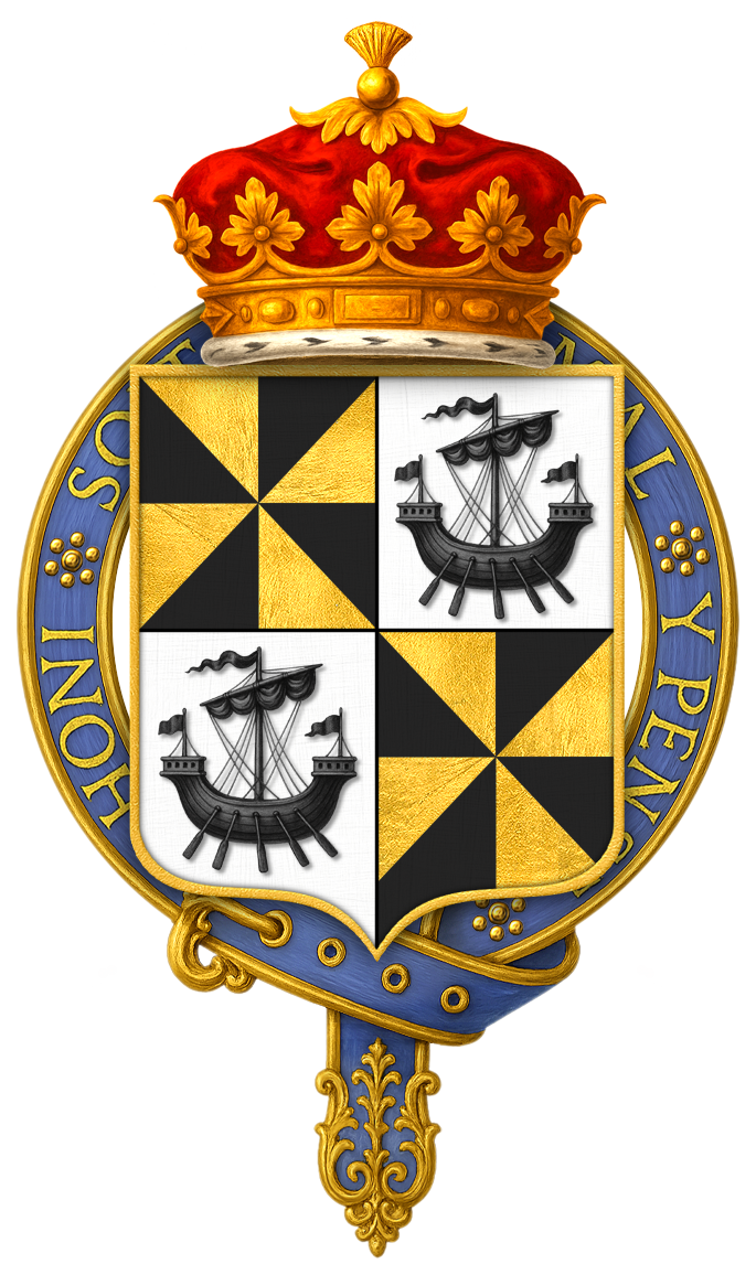 Garter-encircled shield of arms of John Campbell, 9th Duke of Argyll, KG, as displayed on his Order of the Garter stall plate in St. George's Chapel.